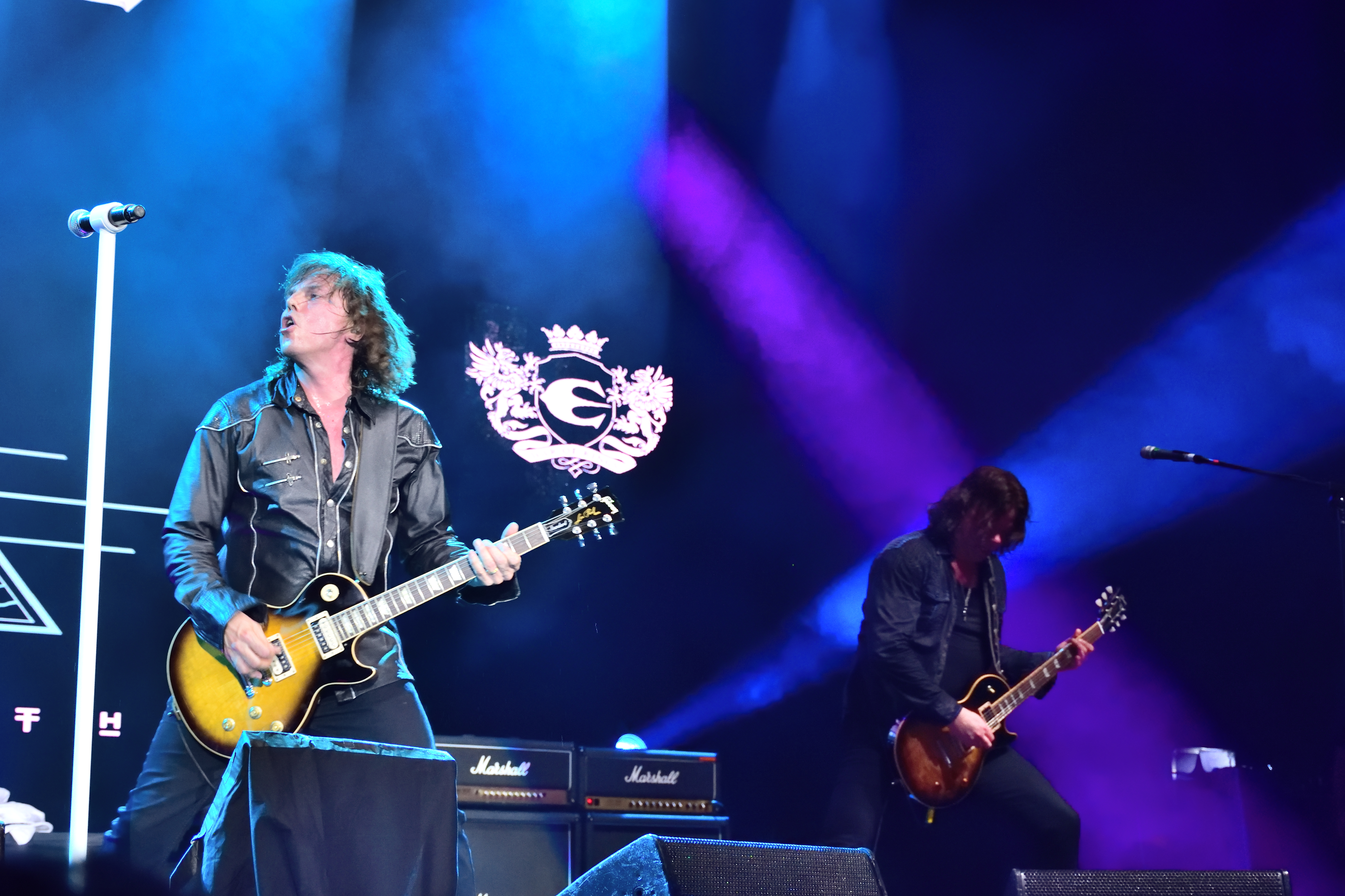 Joey Tempest & John Norum